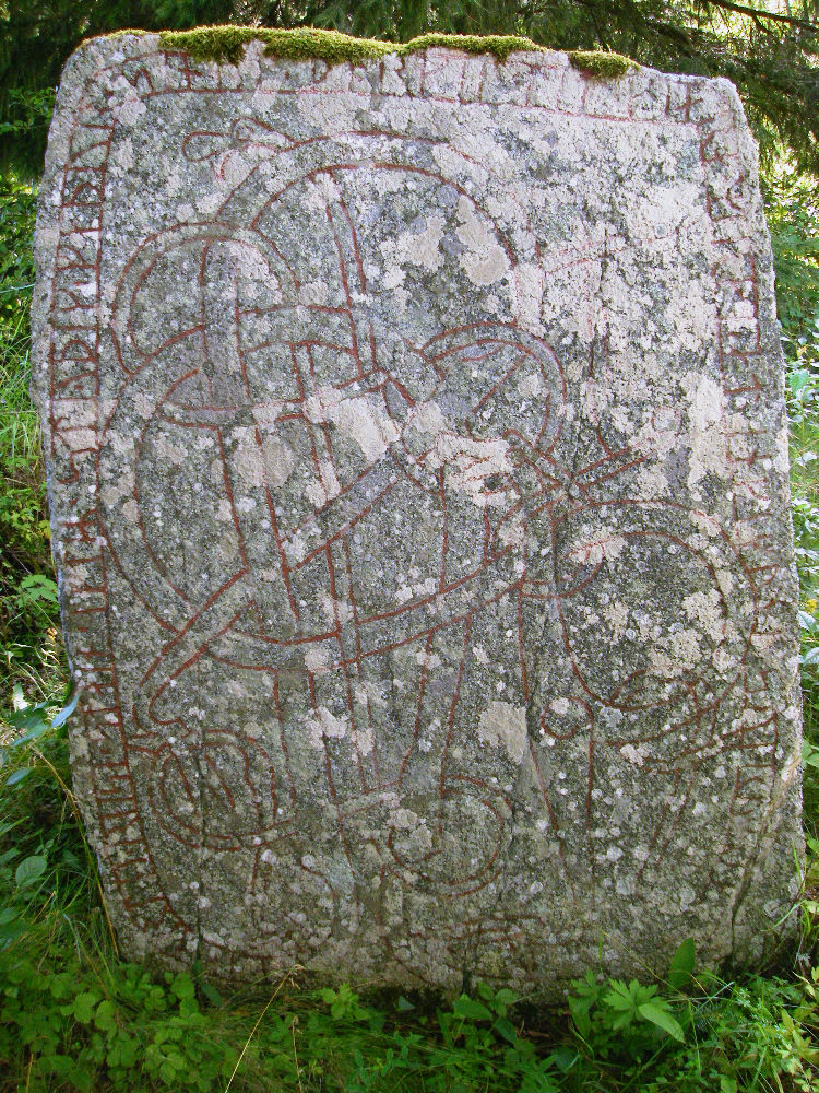 runic stone Upplands runinskrifter U914